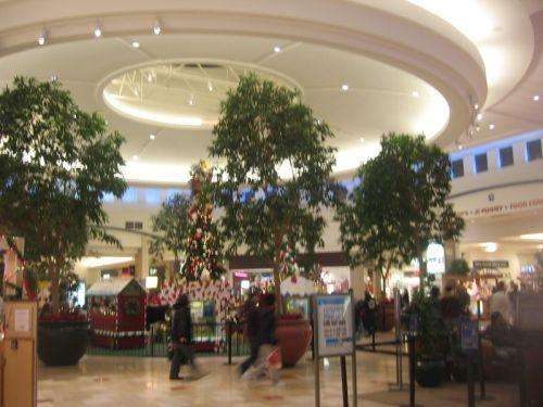 Ocean County Mall during Christmastime 2006